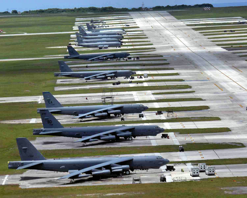 Air Force fighters, bombers, tankers and air control aircraft occupy the flightline at Andersen Air Force Base, Guam. The aircraft, deployed from several Air Force bases, are here to promote regional security and stability in the region. (U.S. Air Force photo/Airman 1St Class Cory Todd)